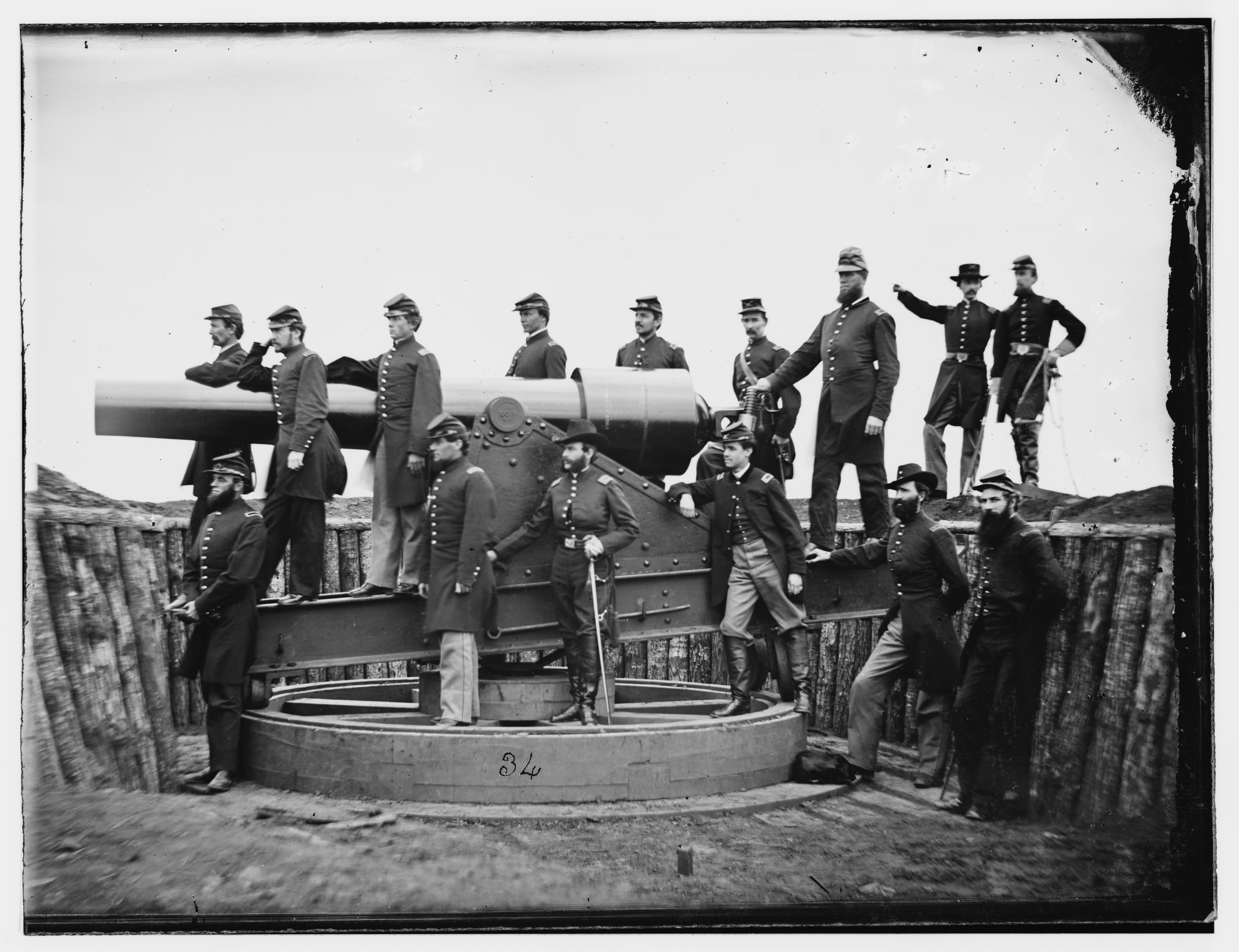 Officers of 3rd Mass (Heavy) Artillery at Fort Totten, Wash. D.C.